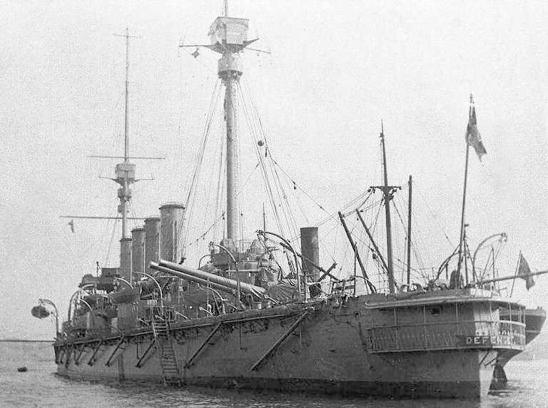 Photograph of British cruiser HMS Defence (1907) showing stern 9.2 inch Mk XI guns.